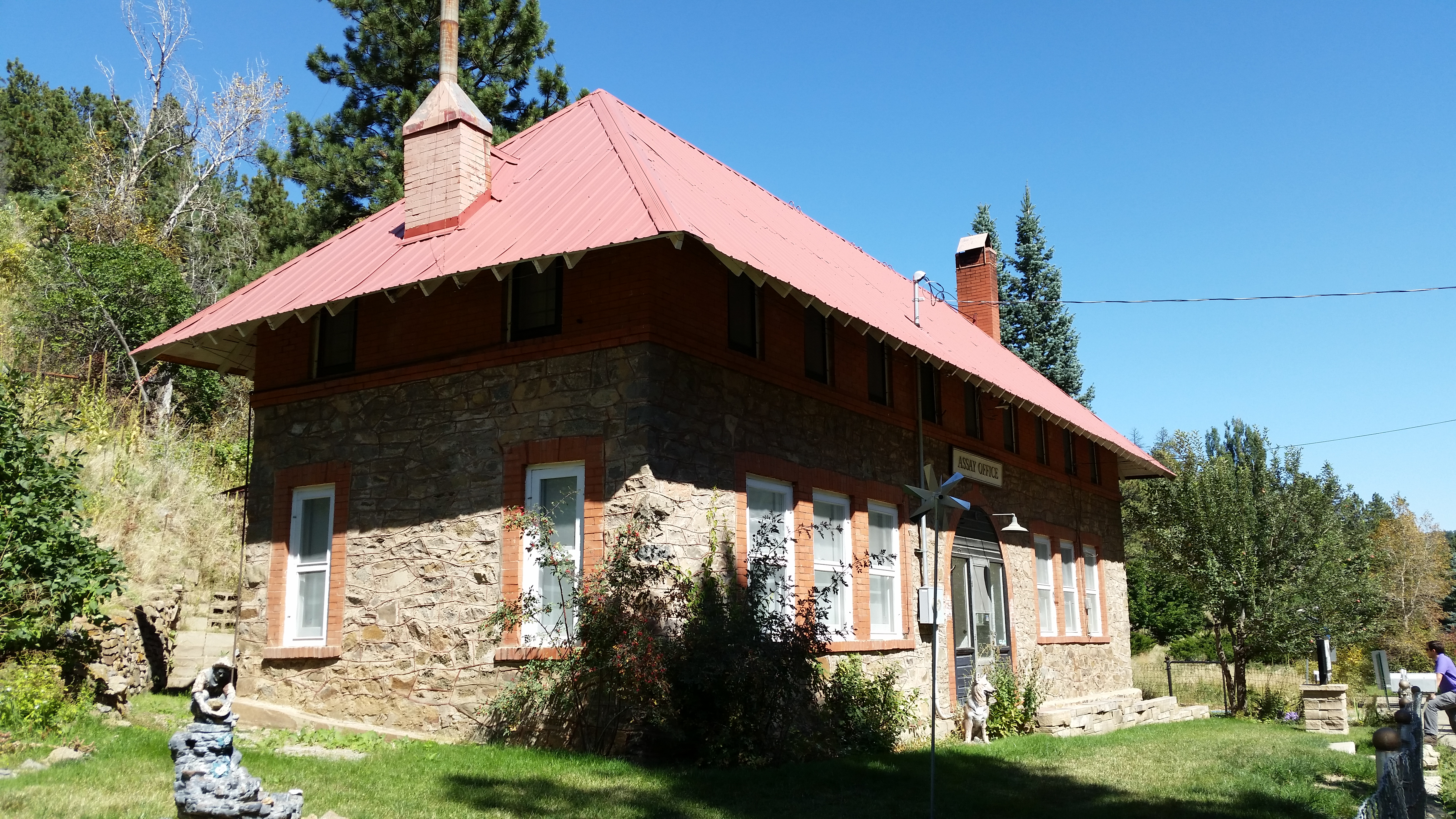 6352 Four Mile Canyon Dr. The Wall Street Assay Office is currently preserved as museum, open to the public on the 3rd Saturday of each month.